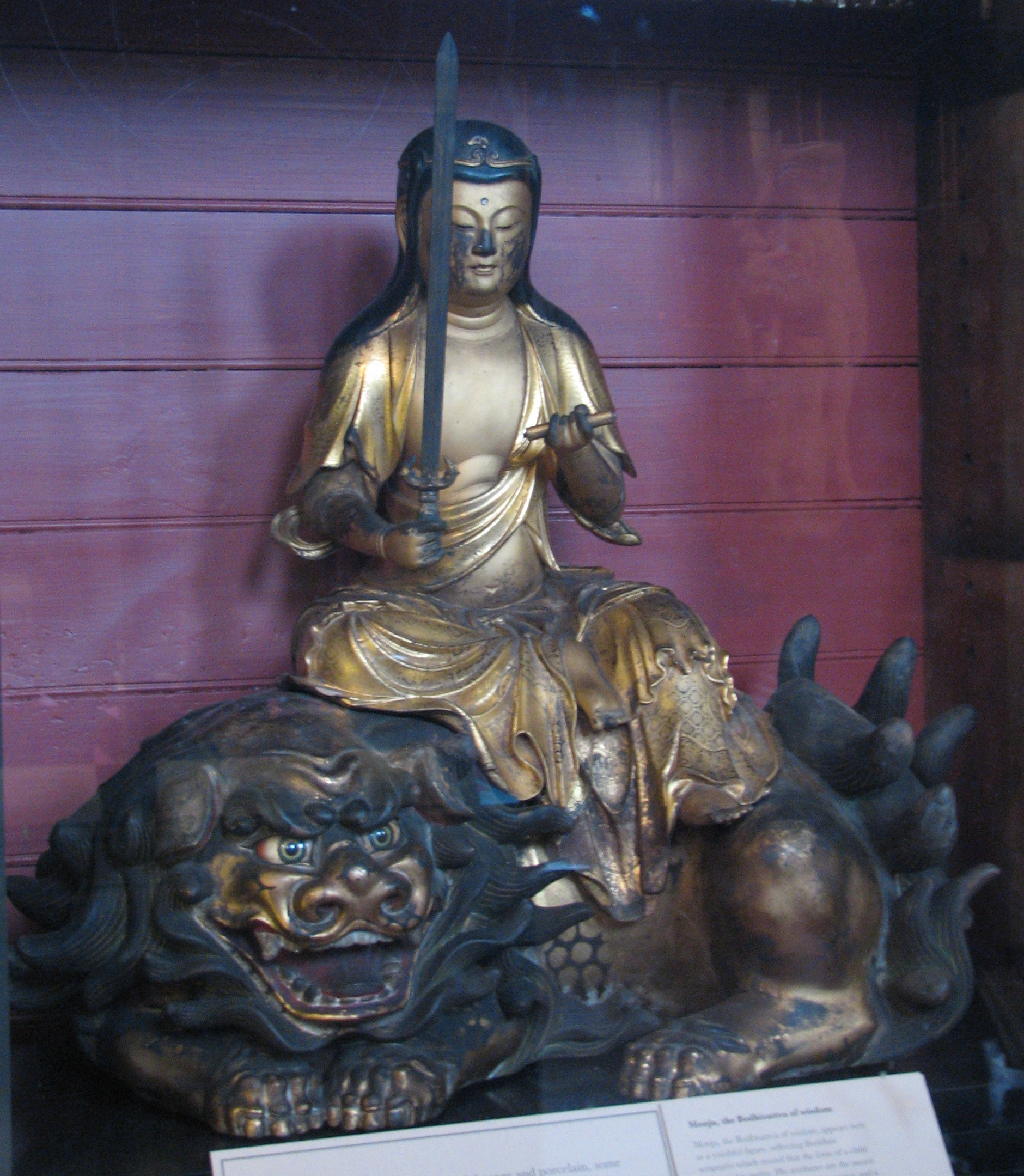 Japanese bronze sculpture of bodhisattva Monju (Manjusri), 17th - 19th century, the British Museum